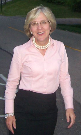 Victoria Wells Wulsin during the Hackett-Strickand Ohio fundraiser.